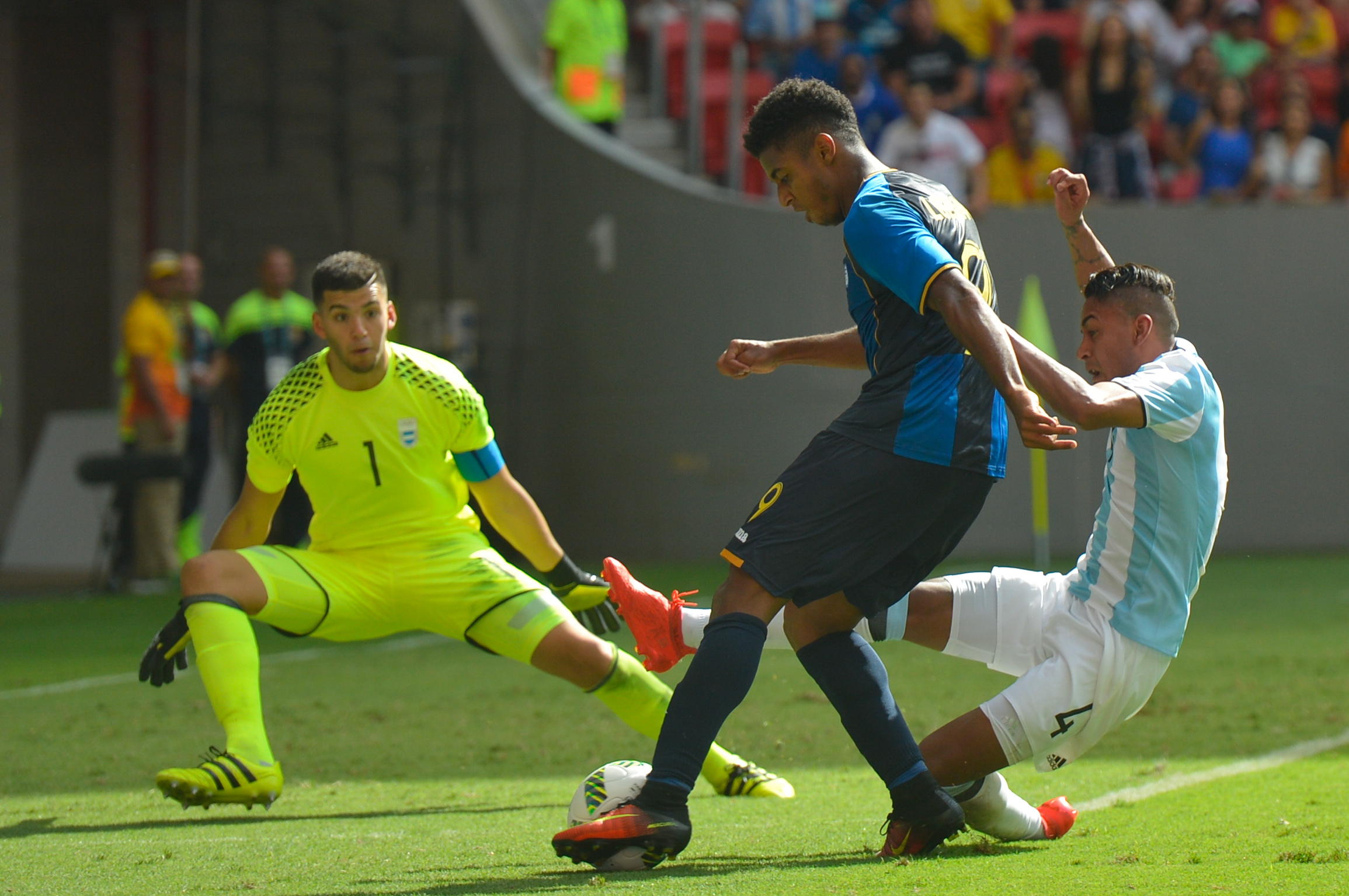 Brasília - Equipes masculinas do futebol olímpico da Argentina e Honduras jogam no Estádio Mané Garrincha (Gustavo Gomes/Agência Brasil)